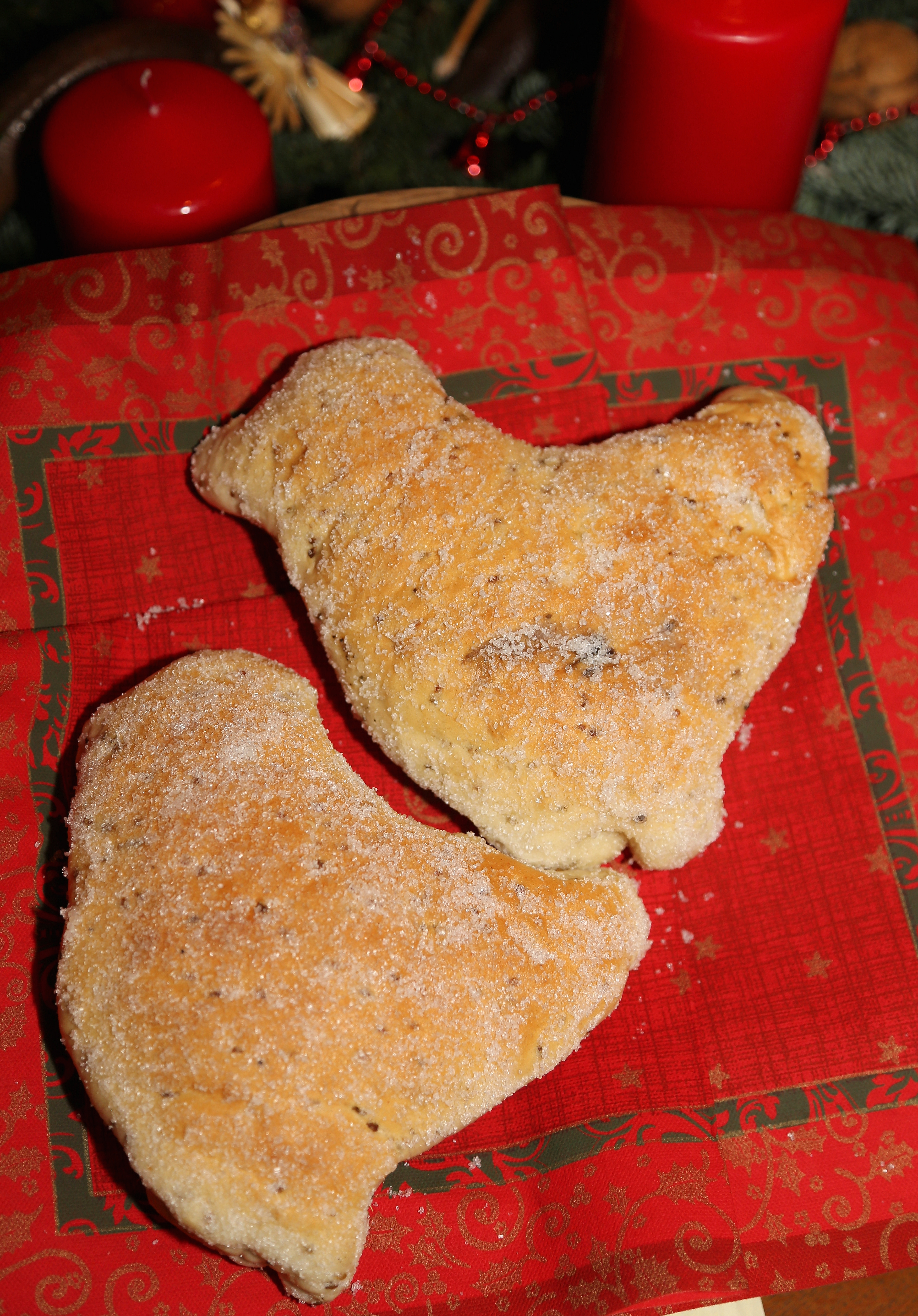 Two Klaushähnchen [Saint Nicholas Day Chicken], a typical kind of pastry baked in the Tecklenburger Land during the weeks before Christmas. Here photographed in Mettingen-Nierenburg, Kreis Steinfurt, North Rhine-Westphalia, Germany.